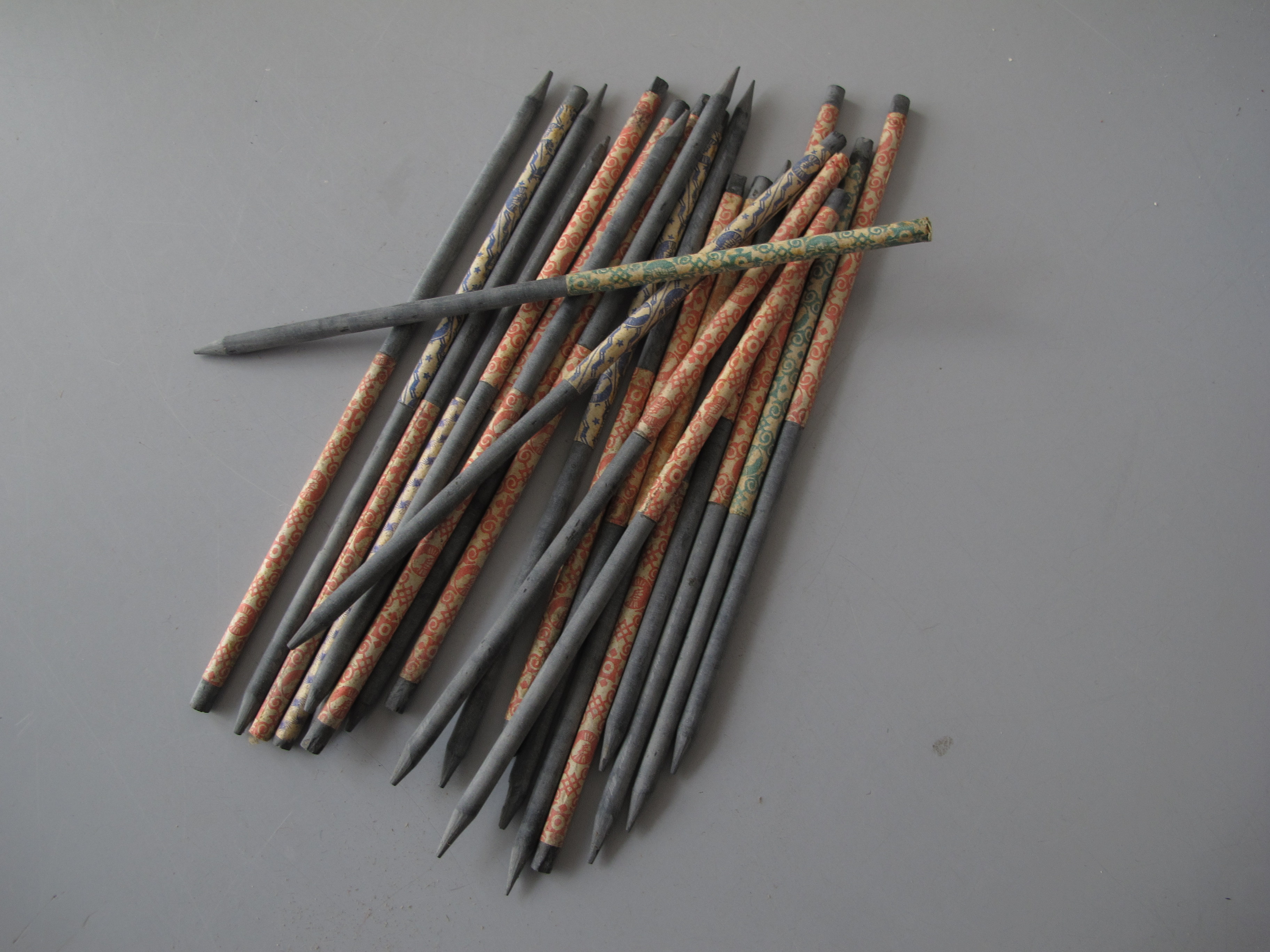 Griffel